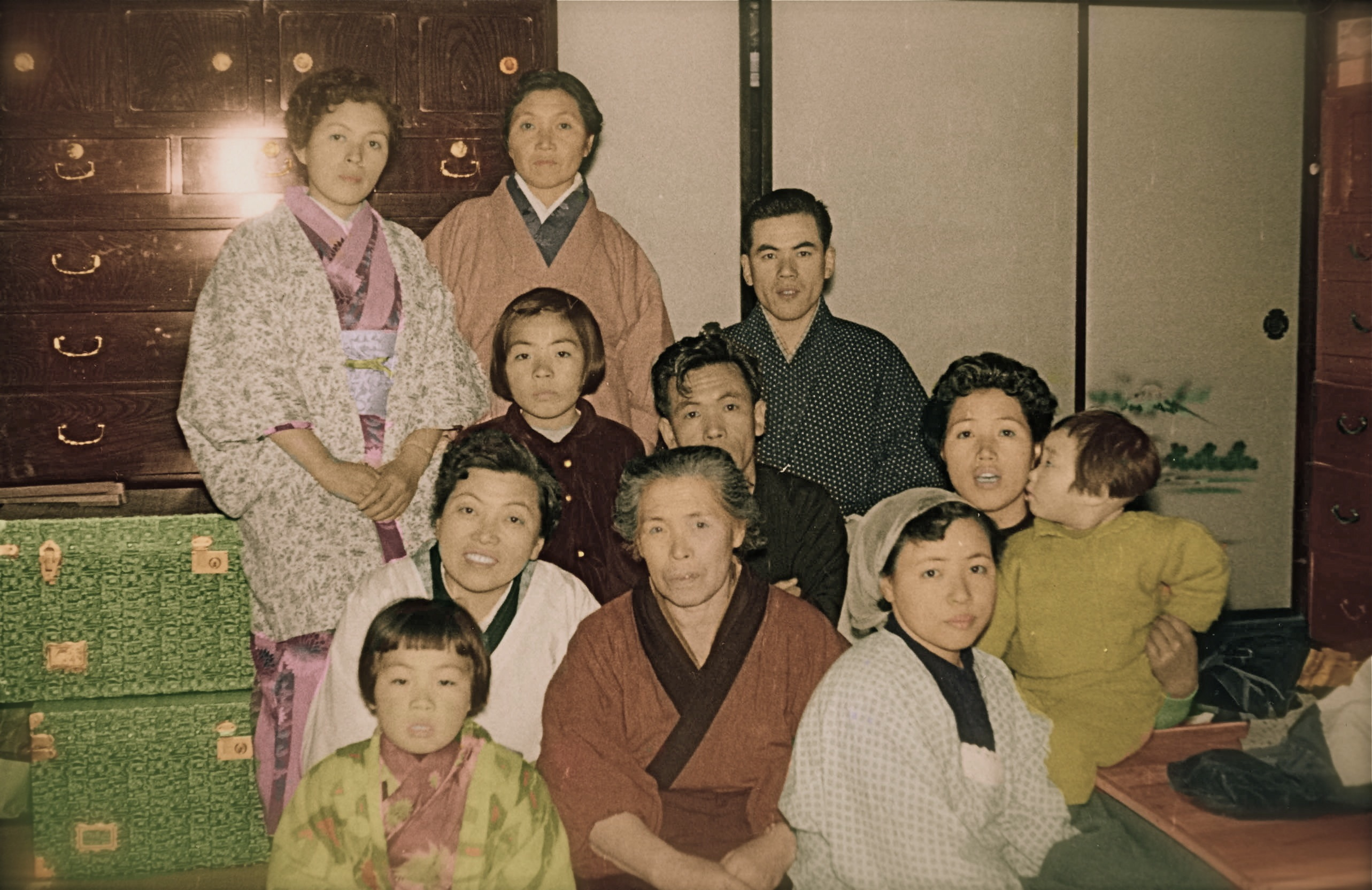 Day before her wedding, Hideko Hosokawa (lower right with white head scarf) and her siblings prepare her belongings to her bridegrooms house. 〔This photograph was originally taken by Ito Monakadaneten Inc. (伊藤最中種店）, a private grocery firm in Ishinomaki, Miyagi, Japan. And the photo was currently owned by Mr. Yasuhiko Ito, who is Hideko's son. Mr. Ito has asked that use of this photograph to "preserve the integrity", i.e, that it not be used in any defamatory ways. 〔This note was added by トトト upon the request of Mr. Ito.〕〕